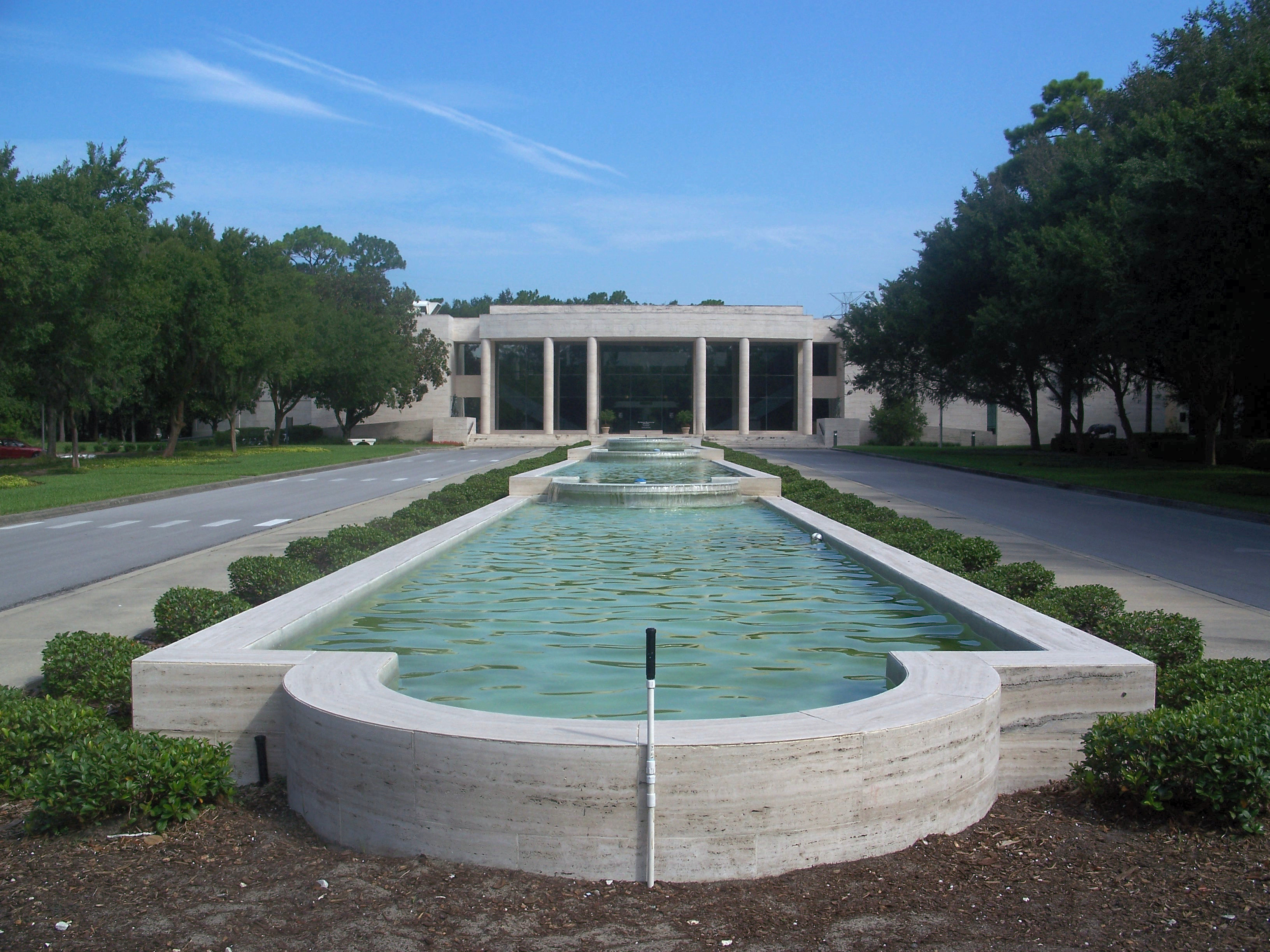 Ocala, Florida: Appleton Museum of Art: Ornamental fountain/pool and museum.